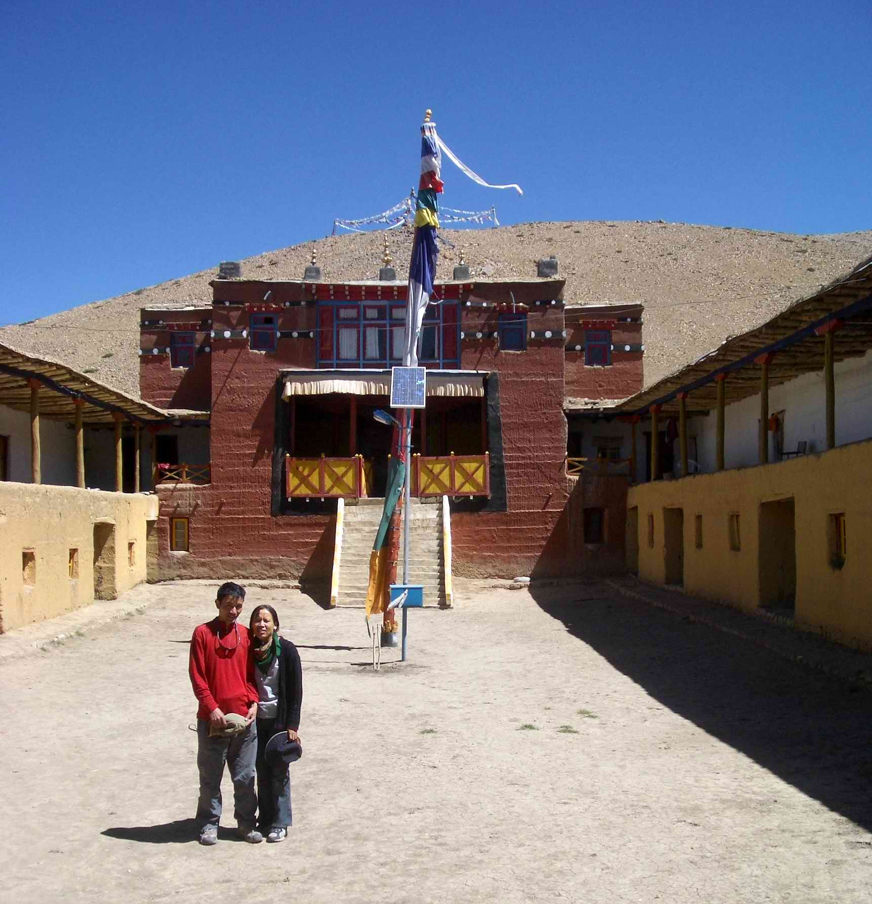 I took this photo myself in 2004